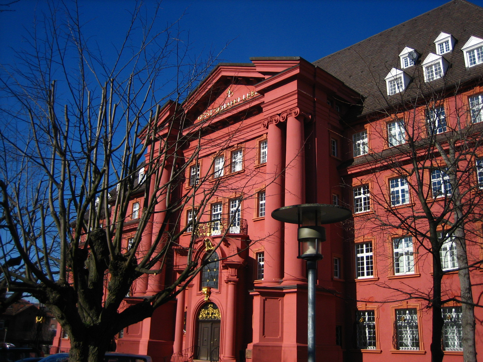 front entrance of the so-called Red House (building of the Herder publishing company) in Freiburg im Breisgau, Germany